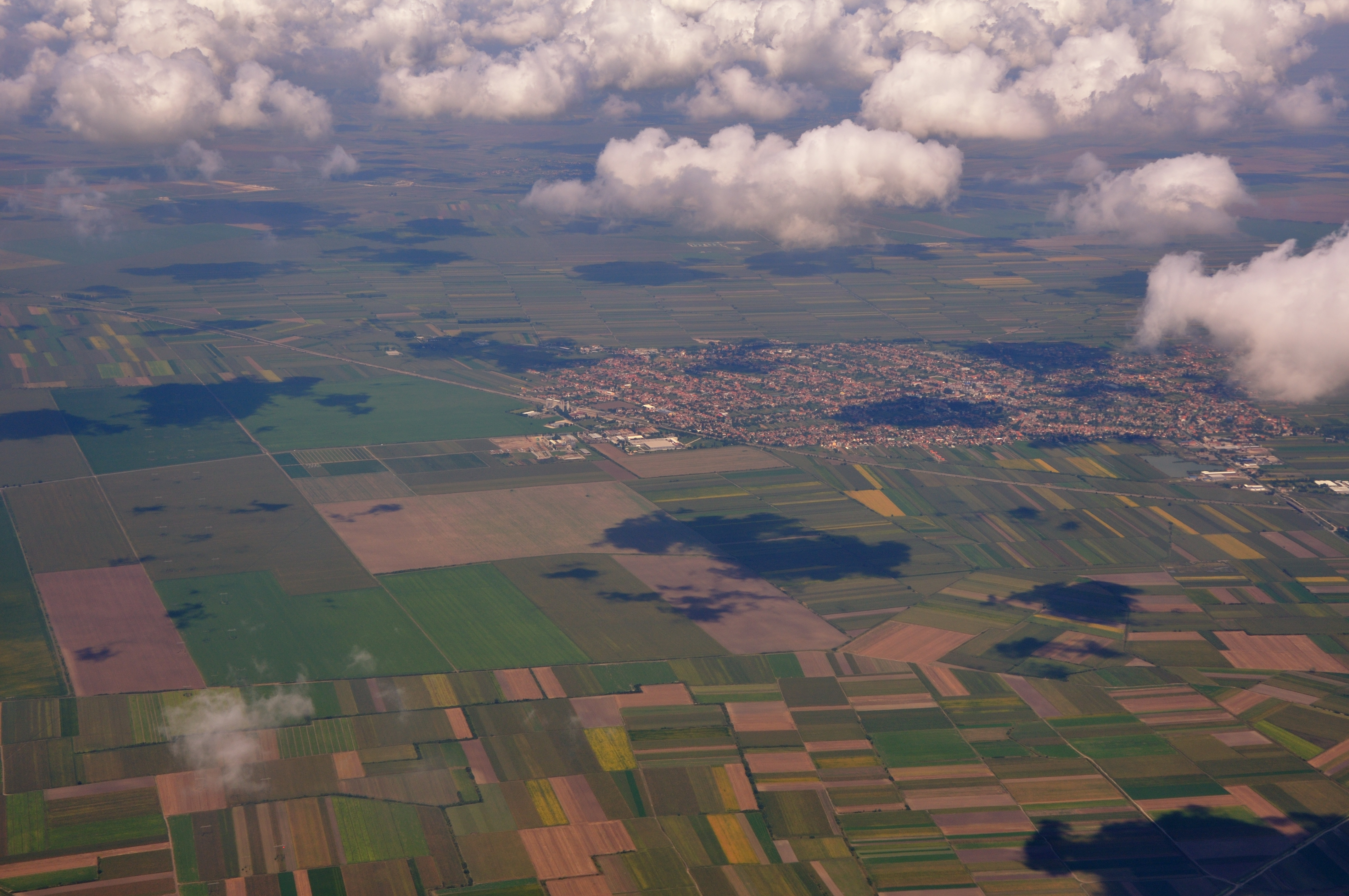 Serbia, aerial photograph after take-off in Belgrade.